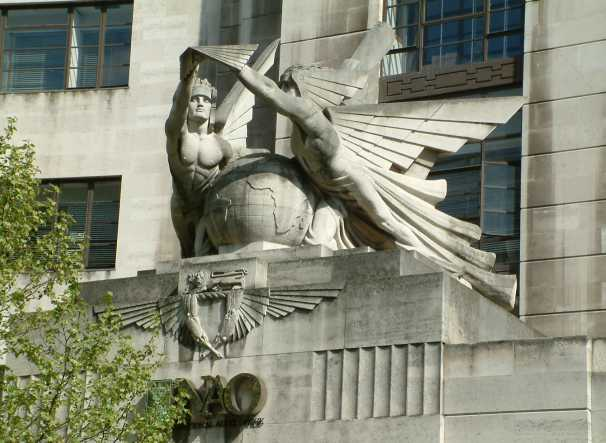 Estatua "Speed Wingows Over the World" creada por Eric Broadvent en Londres